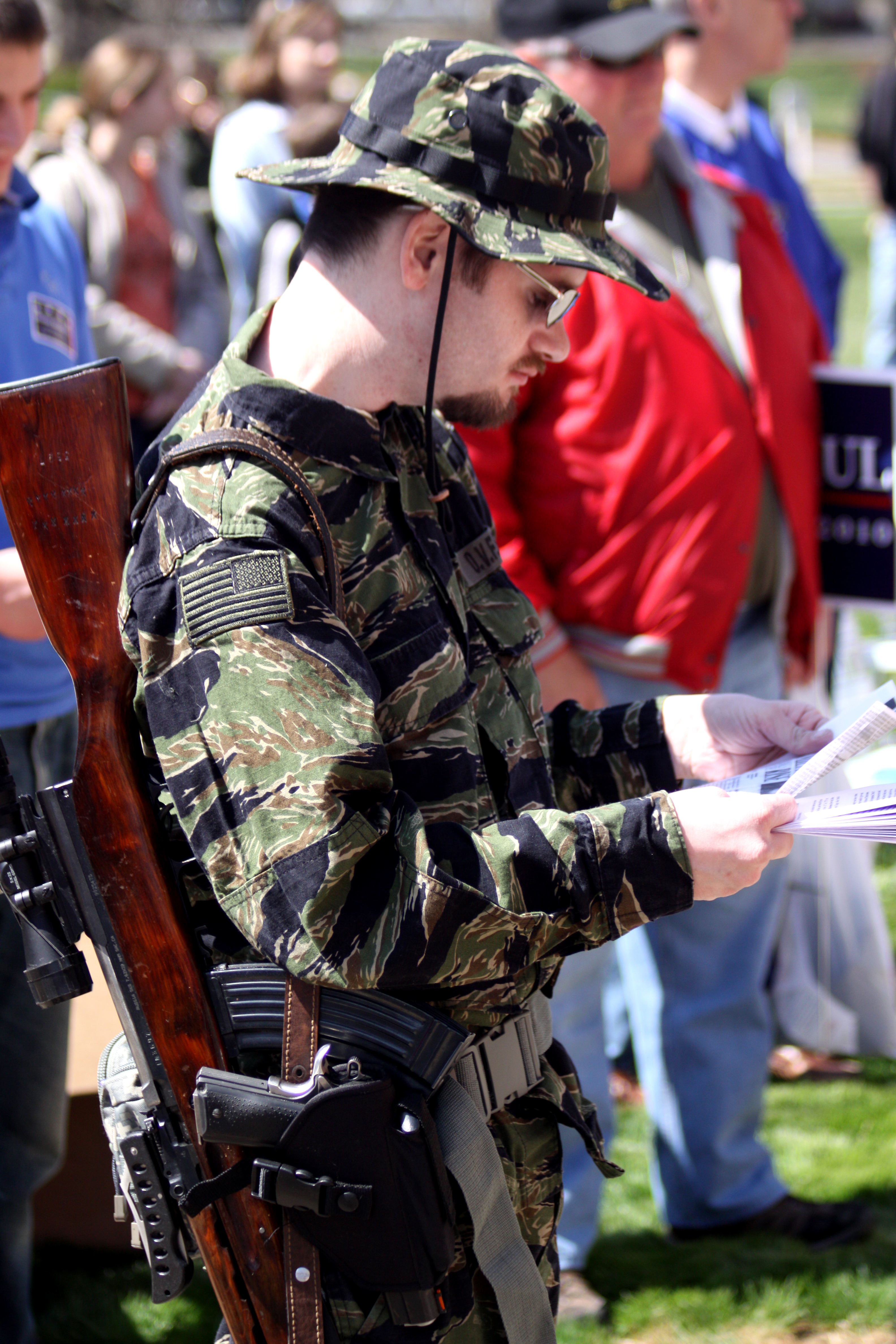 A gun supporter at a Second Amendment rally in Frankfort, Kentucky.